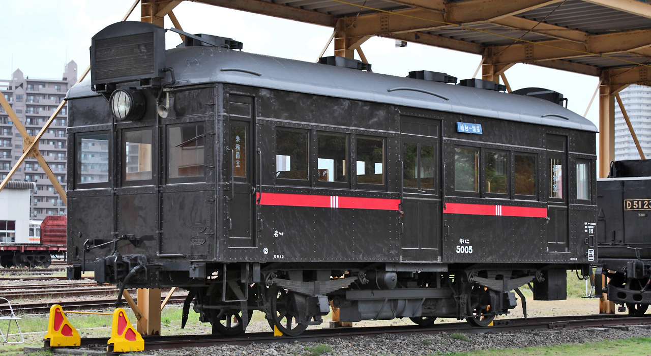 JNR Kihani 5000 Gasoline Railcar (in Naebo Workshop).